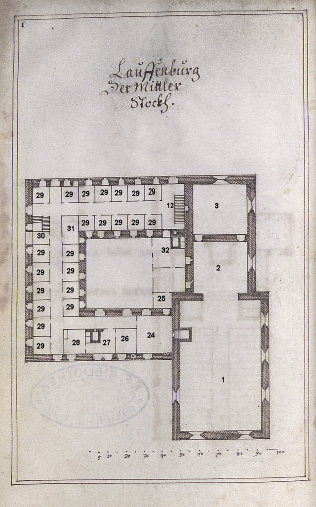 Lageplan des Mittelschosses des Kapuzinerklosters Laufenburg nach der "Architectura Capuzinorum".